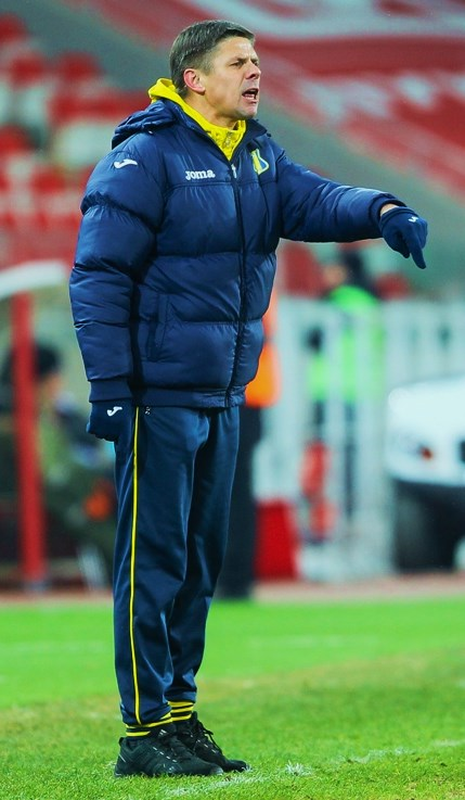 Aleksandr Maslov